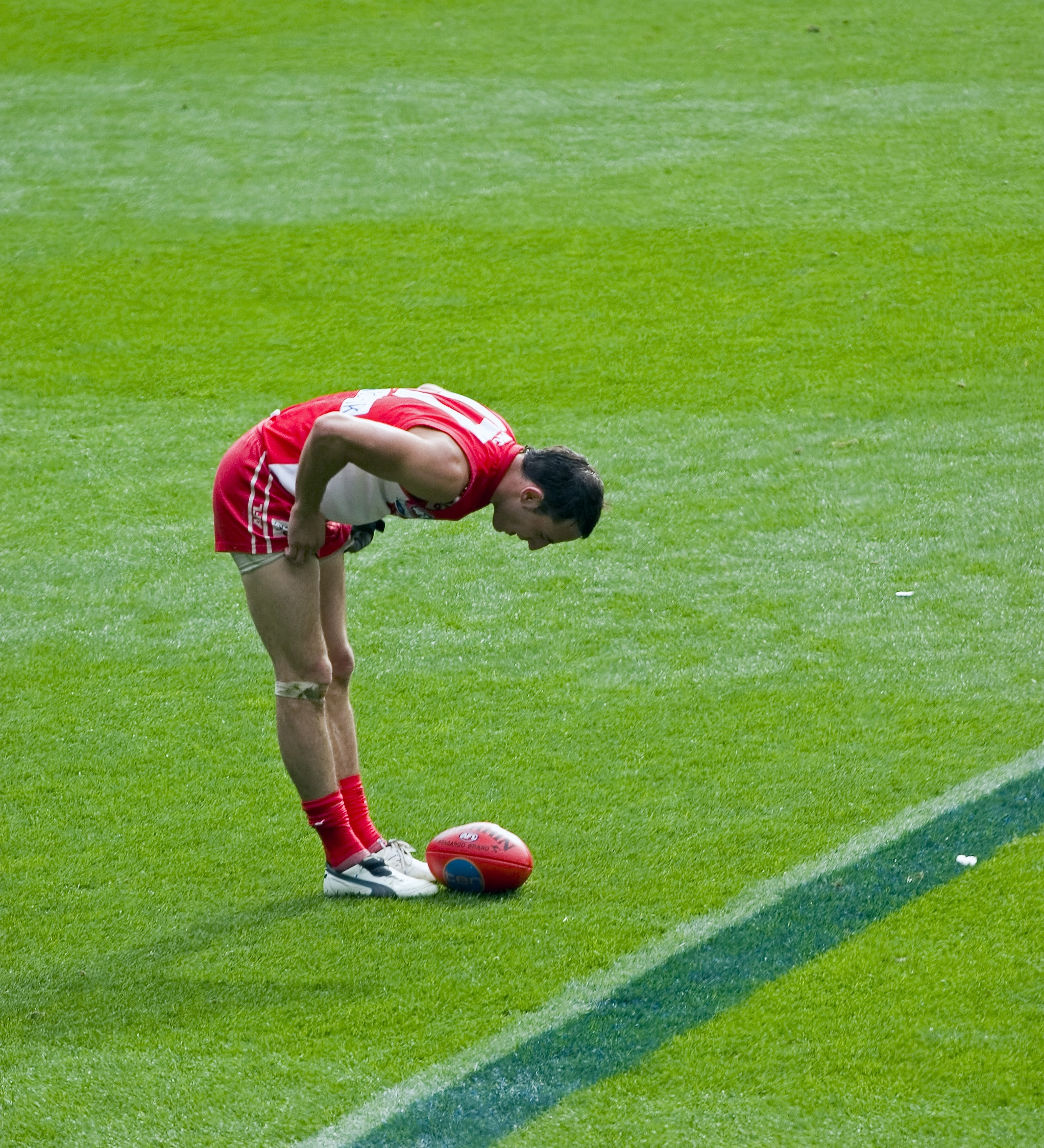 Tadhg Kennelly about to kick for a goal. Photographer: Jimmy Harris Photographer location: Melbourne, Australia flickr_url: [1]